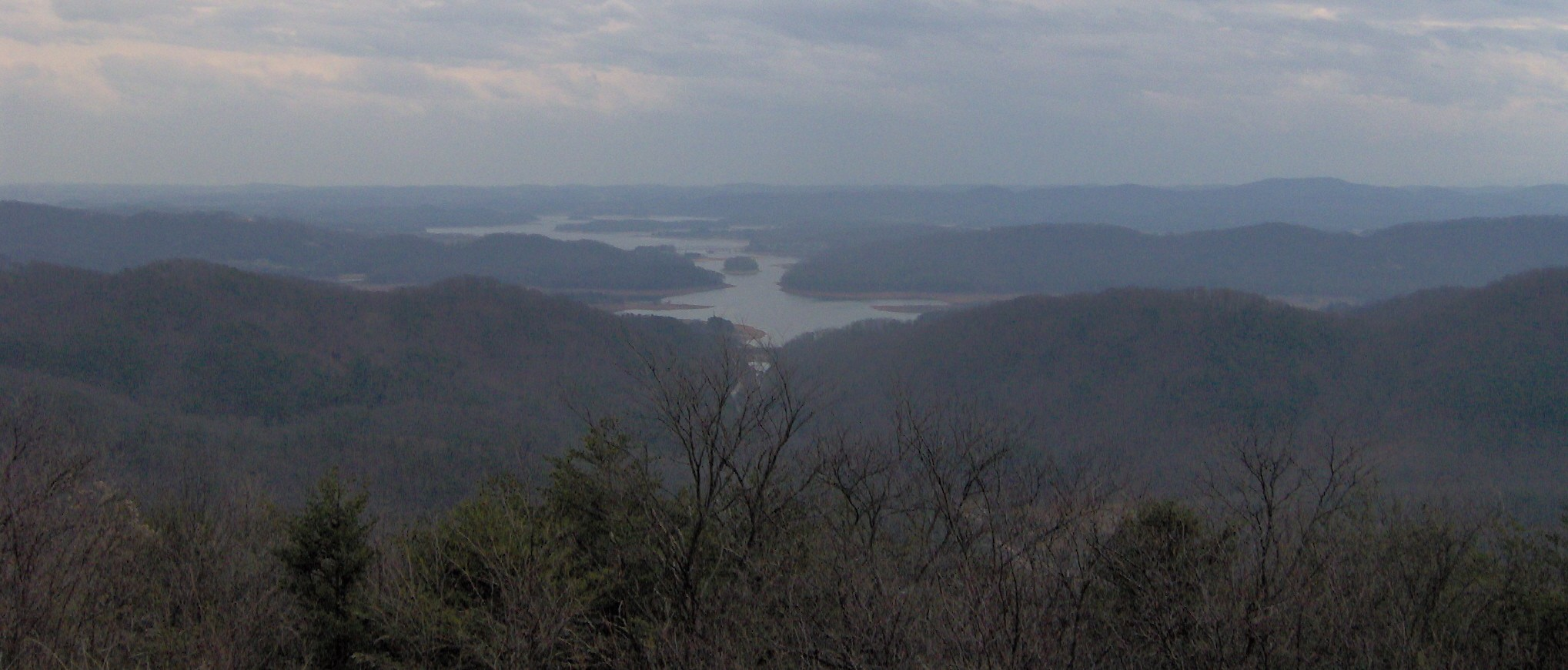 The Holston Valley in Tennessee, looking south from the Veteran's Overlook on the crest of Clinch Mountain (southeastern United States).